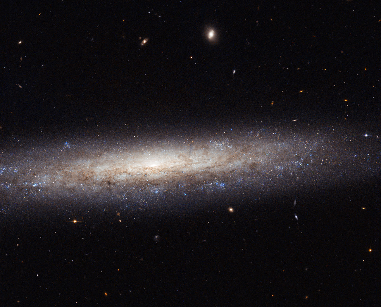 This magnificent new image taken with the NASA/ESA Hubble Space Telescope shows the edge-on spiral galaxy NGC 4206, located about 70 million light-years away from Earth in the constellation of Virgo. Captured here are vast streaks of dust, some of which are obscuring the central bulge, which can just be made out in the centre of the galaxy. Towards the edges of the galaxy, the scattered clumps, which appear blue in this image, mark areas where stars are being born. The bulge, on the other hand, is composed mostly of much older, redder stars, and very little star formation takes place. NGC 4206 was imaged as part of a Hubble snapshot survey of nearby edge-on spiral galaxies to measure the effect that the material between the stars— known as the interstellar medium — has on light as it travels through it. Using its Advanced Camera for Surveys, Hubble can reveal information about the dusty material and hydrogen gas in the cold parts of the interstellar medium. Astronomers are then able to map the absorption and scatteringof light by the material — an effect known as extinction — which causes objects to appear redder to us, the observers. NGC 4206 is visible with most moderate amateur telescopes at 13th magnitude. It was discovered by Hanoverian-born British astronomer, William Herschel on 17 April 1784. A version of this image was entered into the Hubble's Hidden Treasures image processing competition by contestant Nick Rose.